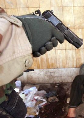 Marine holding MEU(SOC) M1911 .45 in Iraq - Courtesy of USMC